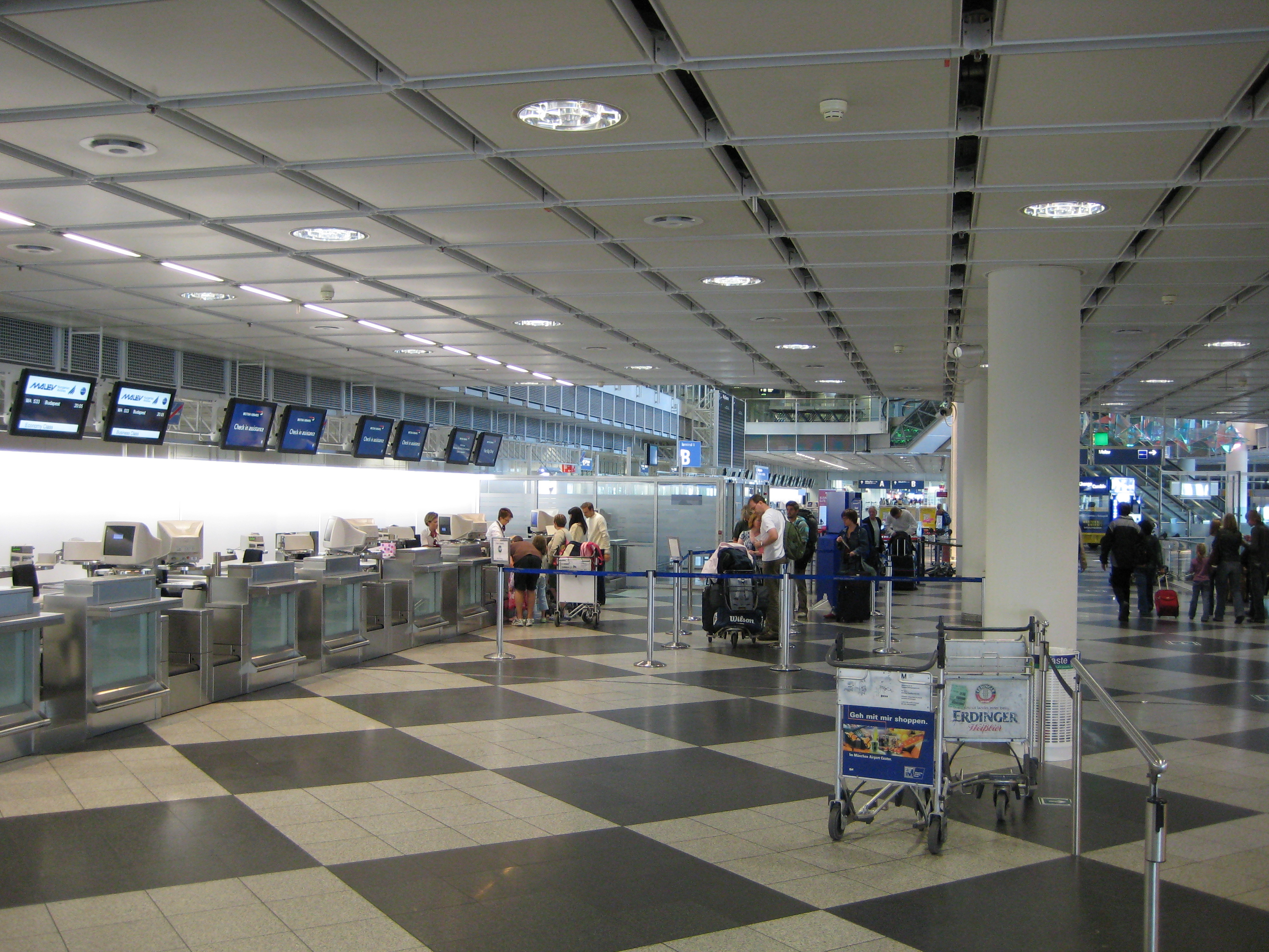 Munich International Airport, Terminal 1, Level 4, check in British Airways